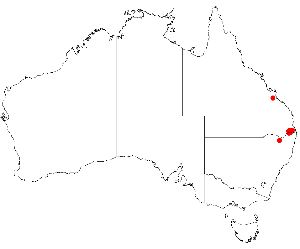 Acacia acrionastes Occurrence data from Australasia Virtual Herbarium downloaded from on 8 December 2018